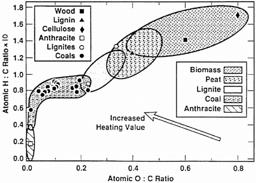 Van Krevelen diagram from InTech Open